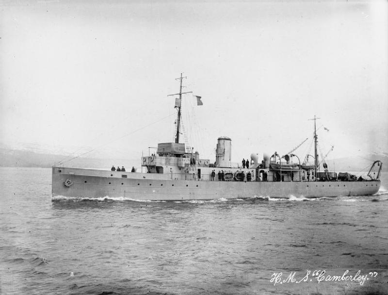 Photograph of British Hunt class minesweeper HMS Camberley.